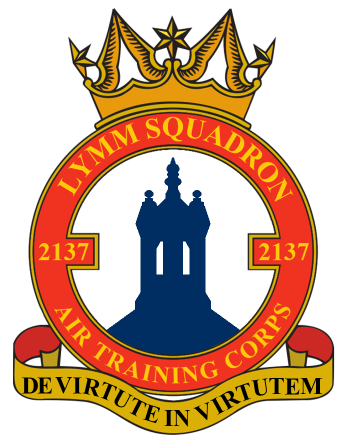 The badge of 2137 (Lymm) Squadron showing the Lymm cross at the centre and the motto De Virtute in Virtutem, which means From Strength to Strength